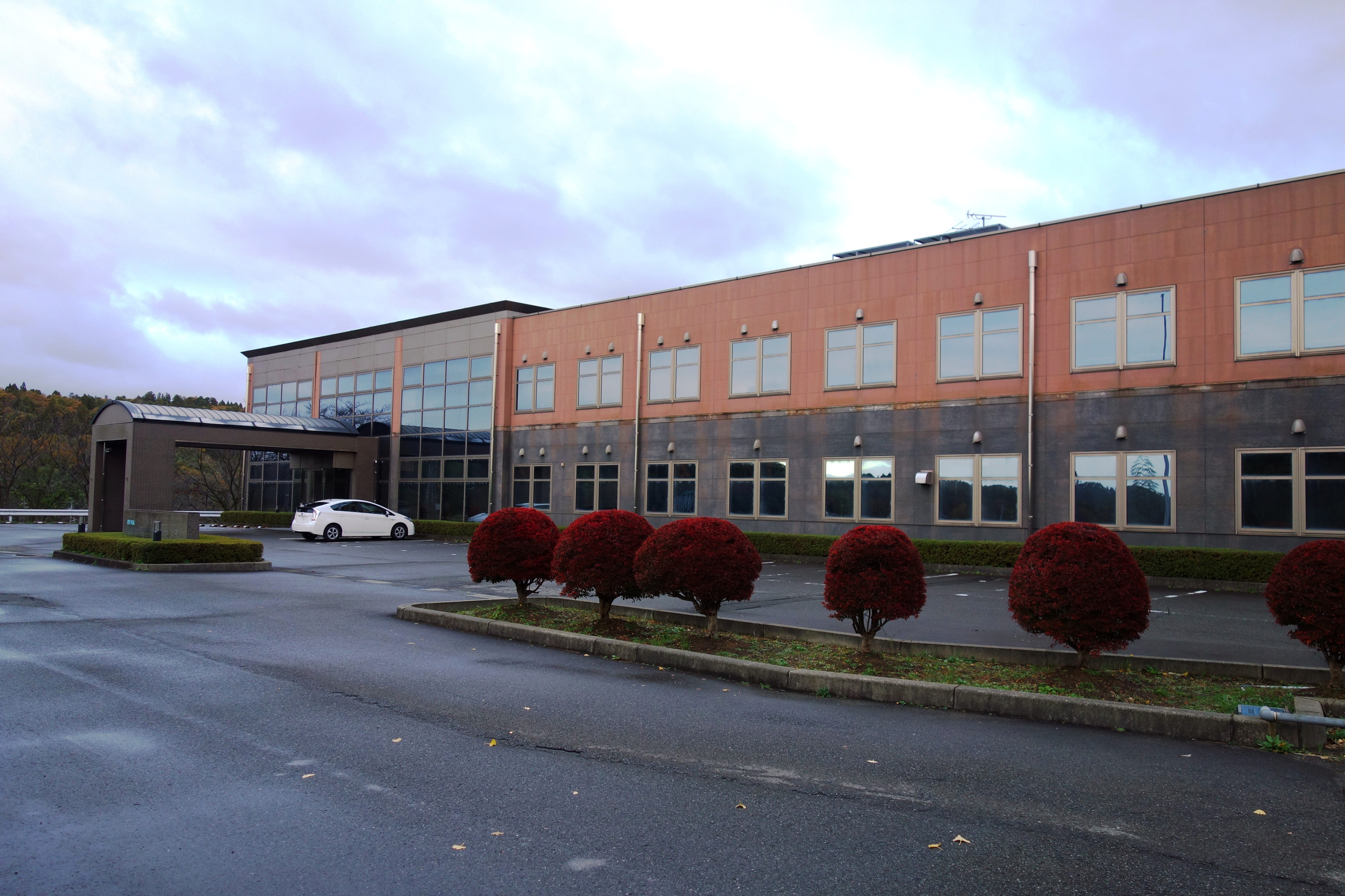 Technical Center of FUKUI BYORA CO., LTD. (Awara-shi, Fukui Pref., Japan)